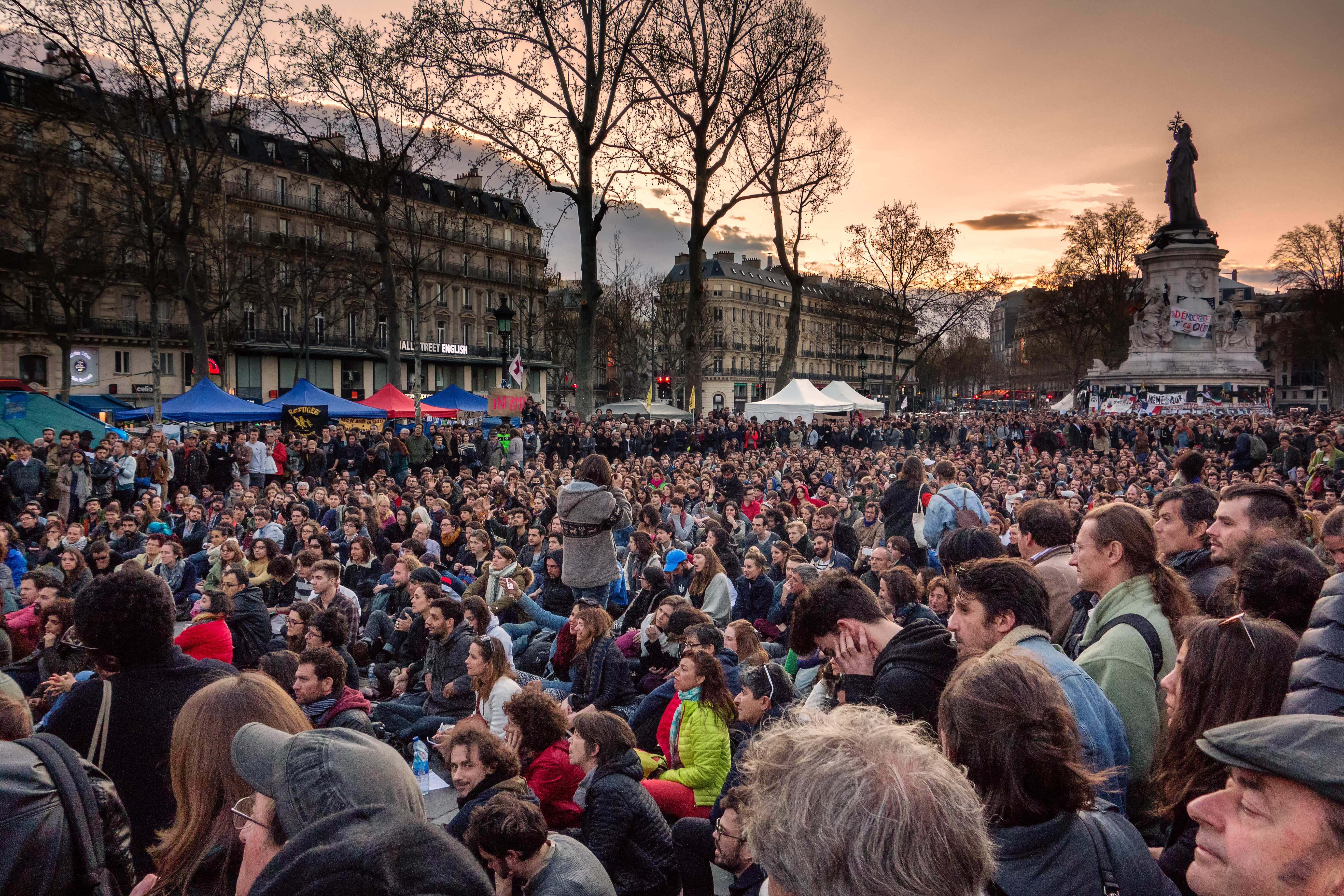 People have been gathering in Republic place, every night for 10 days, in order to discuss about how to improve society